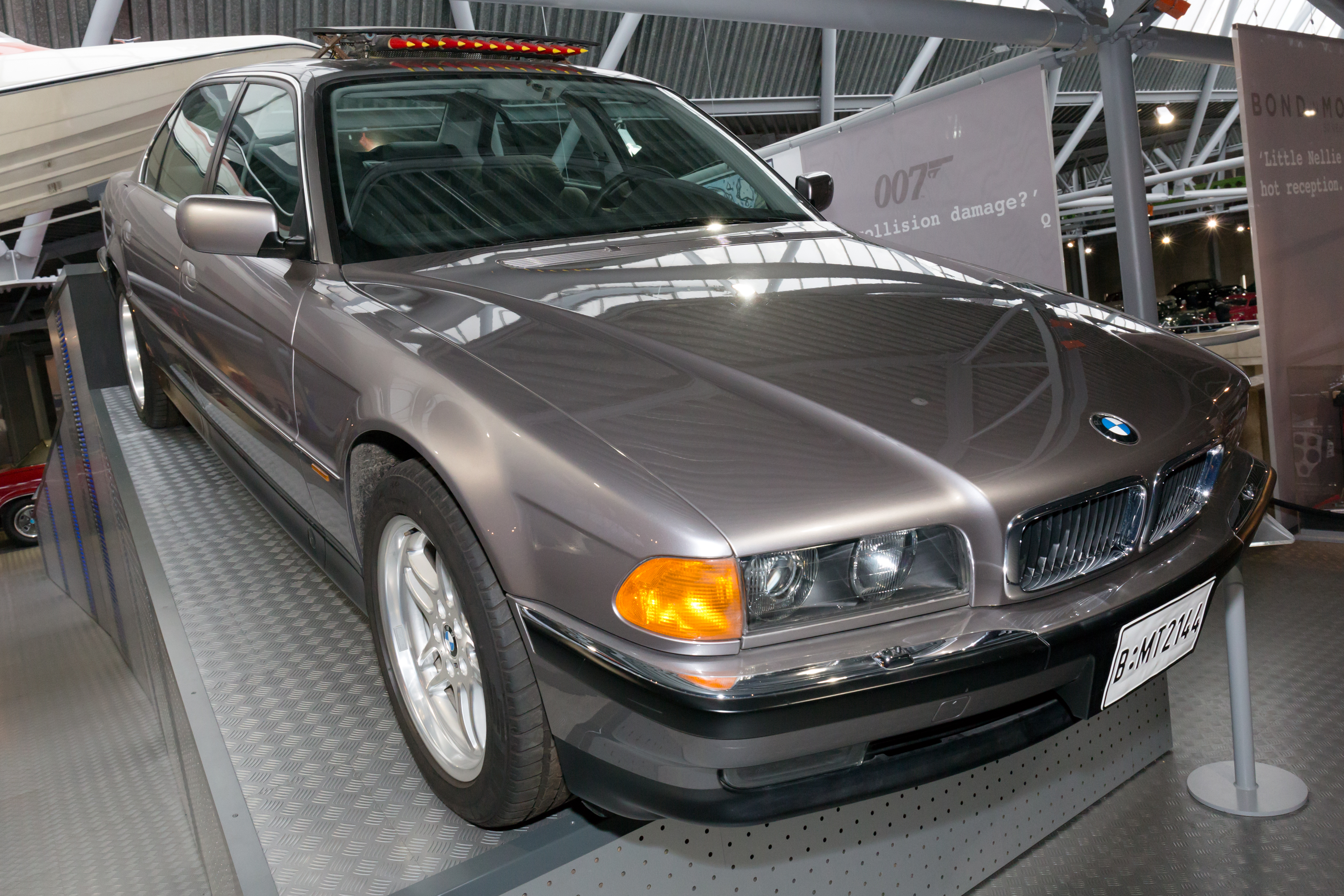 BMW 750iL, from "Tomorrow Never Dies" (1997)